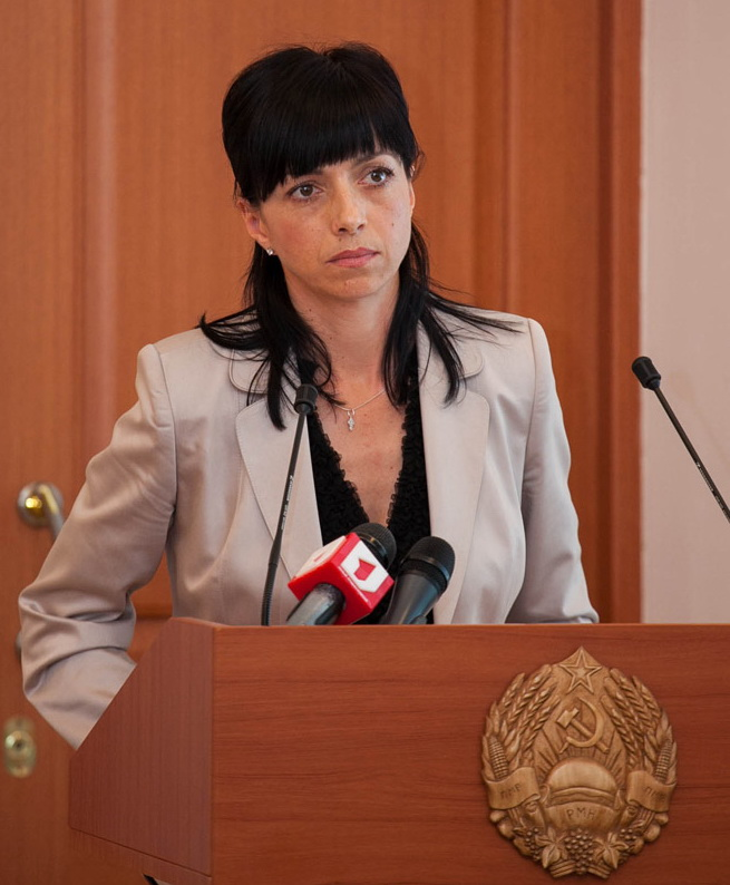 Tetyana Mykhailivna Turanska, prime minister of Transnistria